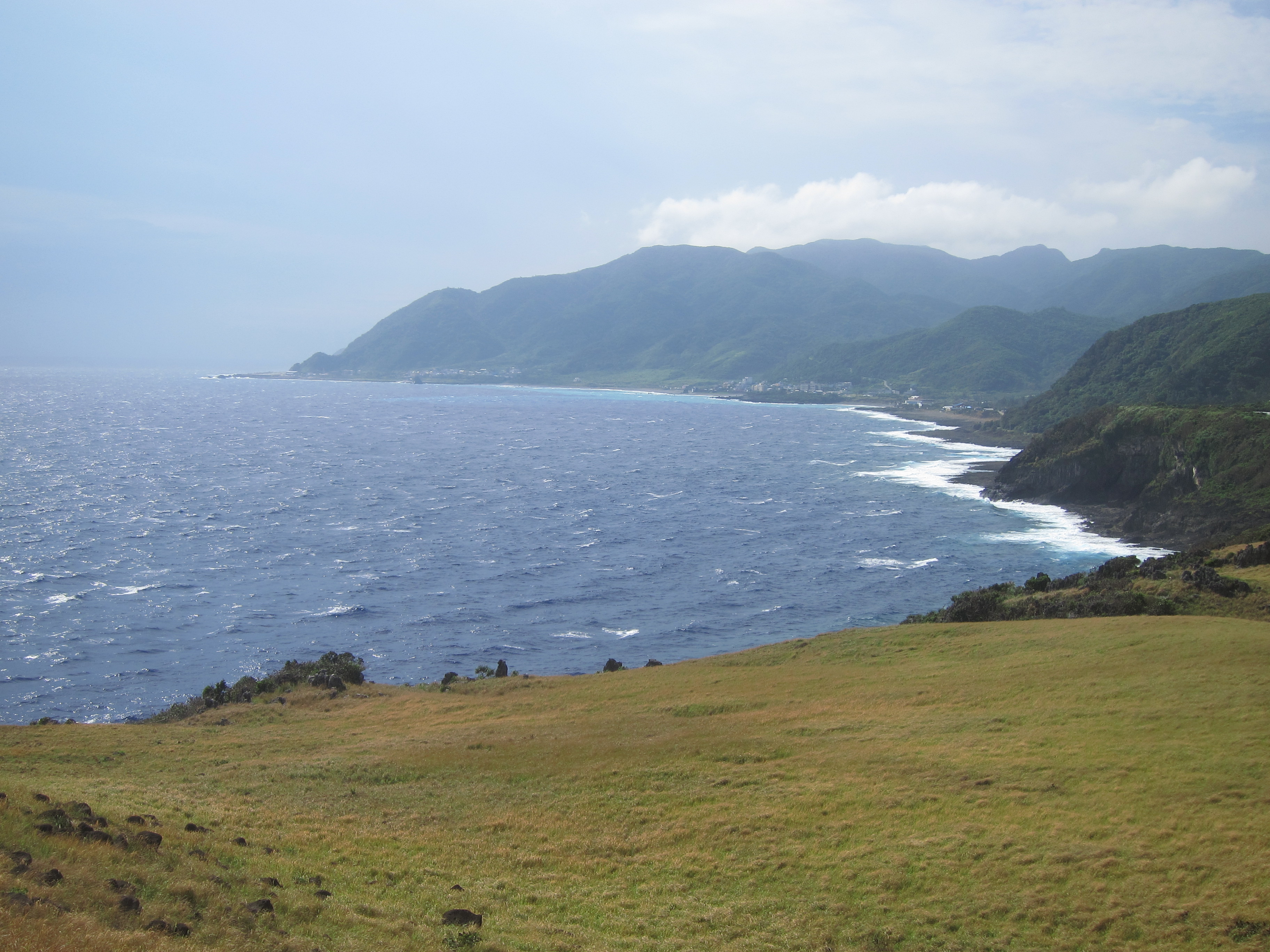 Coastal landscape from Orchid Island (Lanyu), Taiwan.